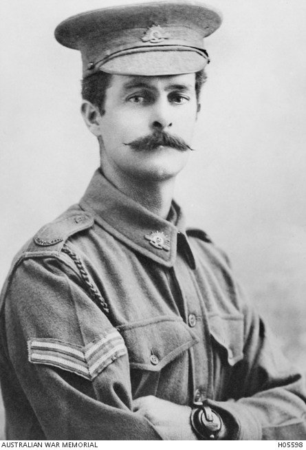 Studio portrait of 9434 Corporal (Cpl) Andrew John Renwick, 11th Field Company, Australian Engineers.